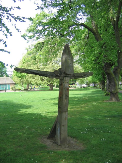 'Angel of Light', Chapelfield, Norwich. 'Angel of Light' is sited near the Eastern entrance of 168062 it is by Kevin Lee